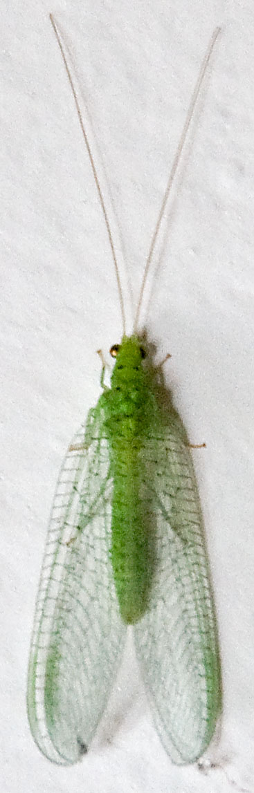 Pseudomallada sp.